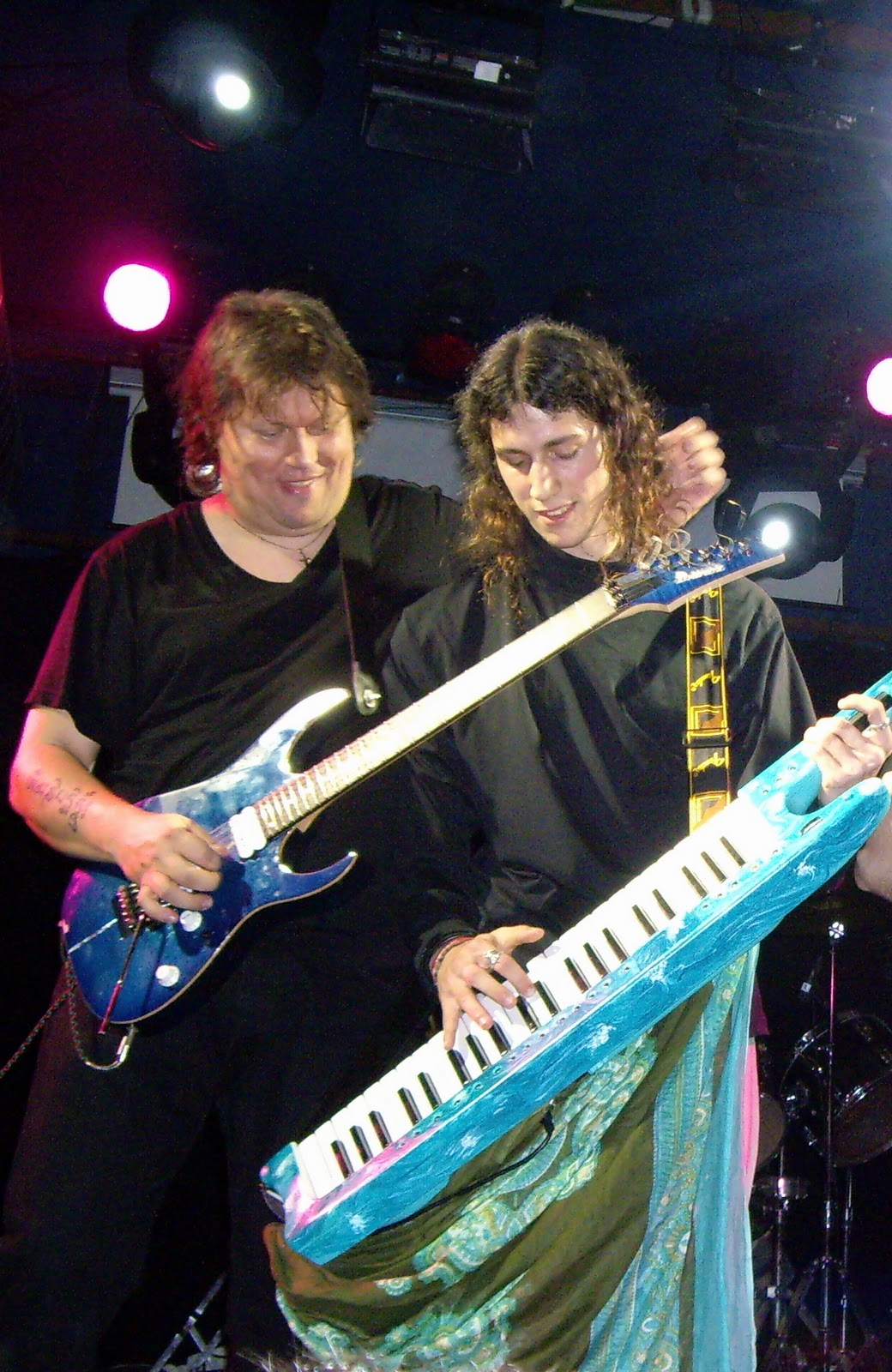 Guitarist Timo Tolkki playing on his World Seminar Tour with Joe Atlan.